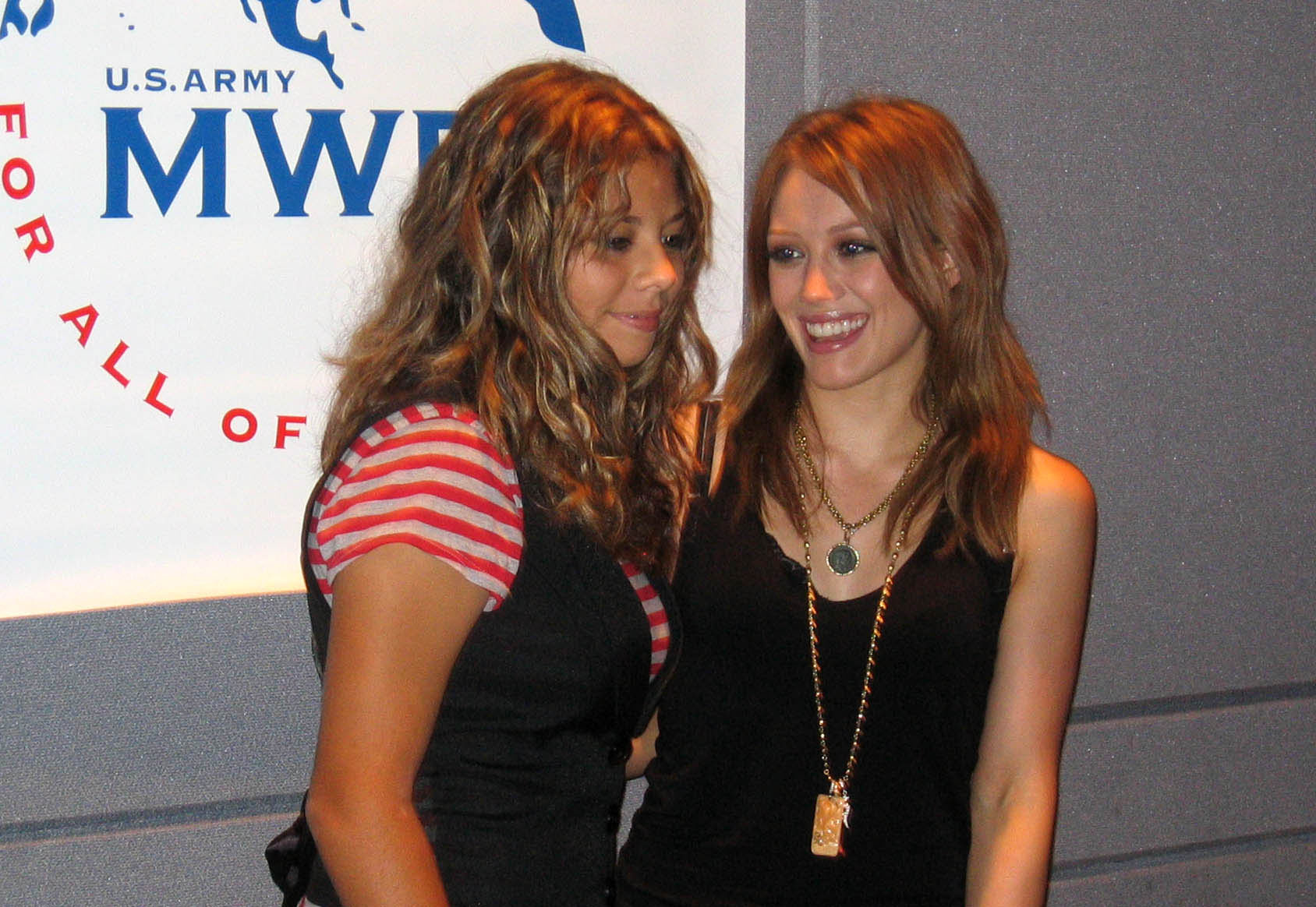 Hilary Duff